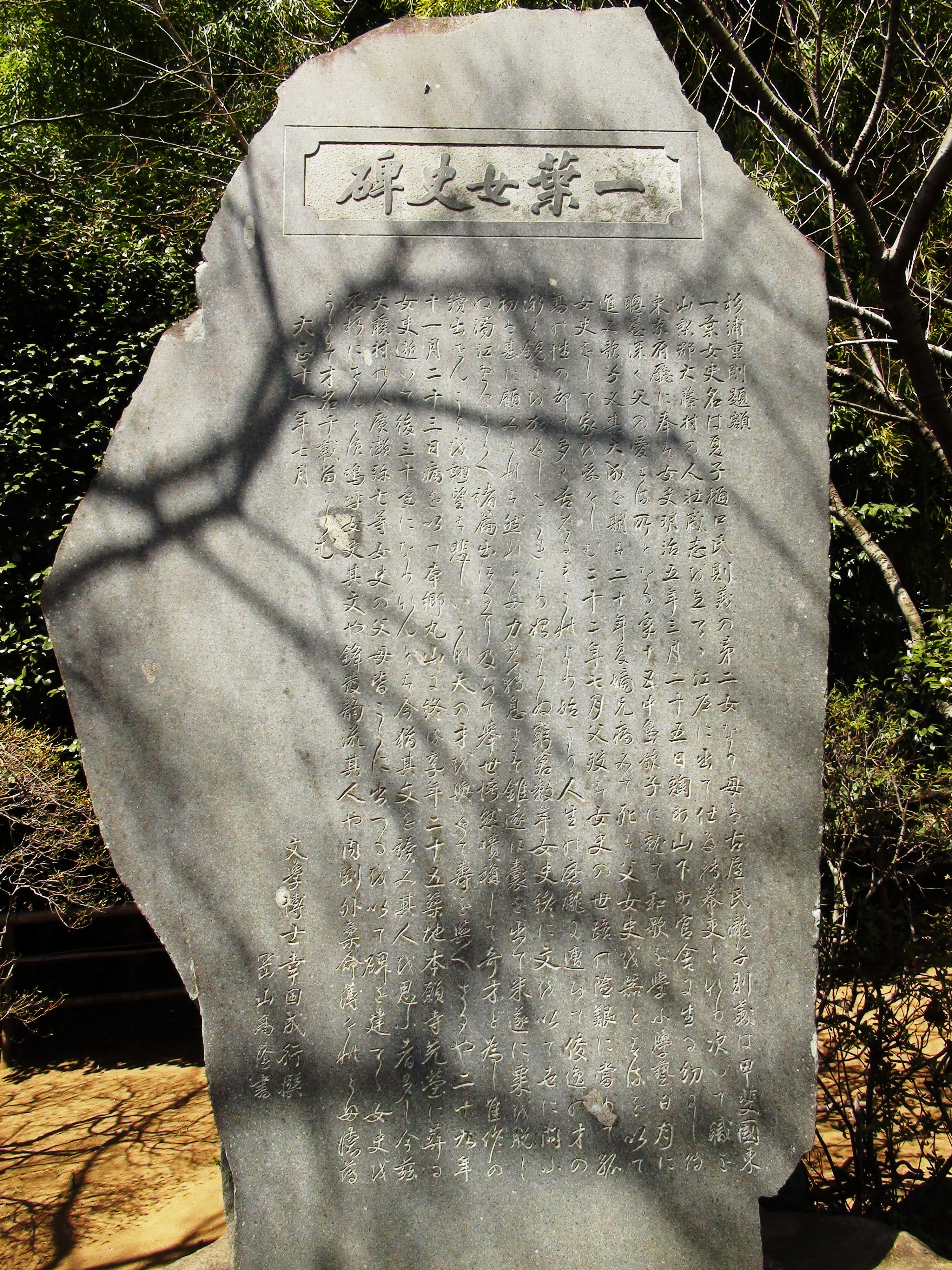 Monument of Ichiyo Higuchi